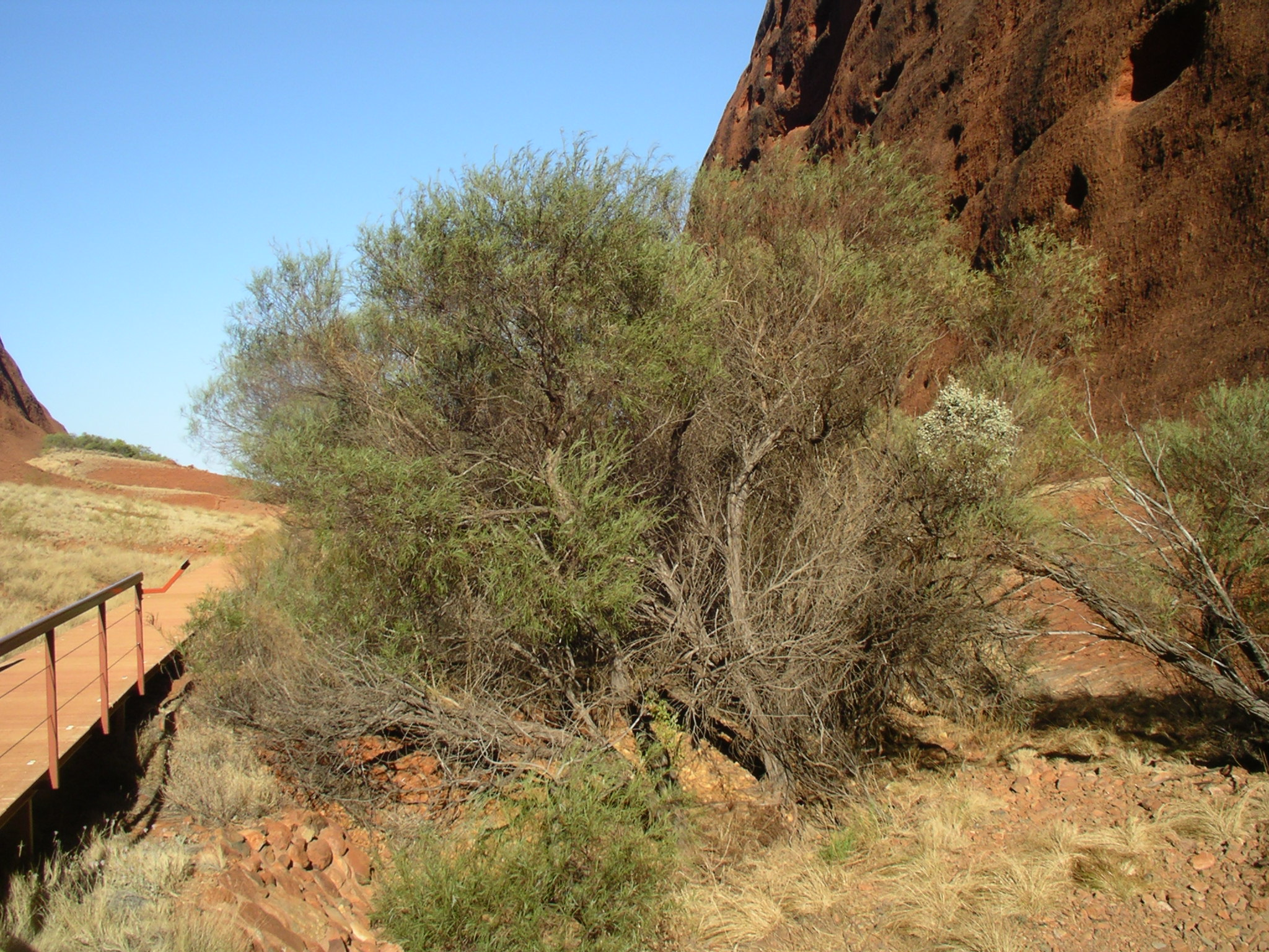 Acacia olgana on Walpa trail